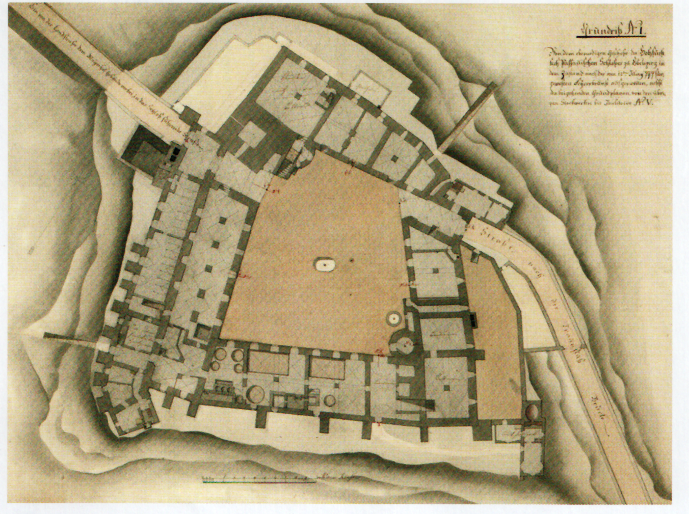 Ground plan of Schloss Ebelsberg Austria